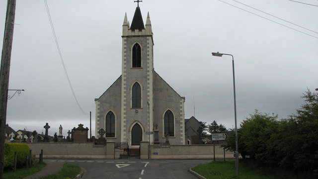 St.Patricks Catholic Church , Loughguile